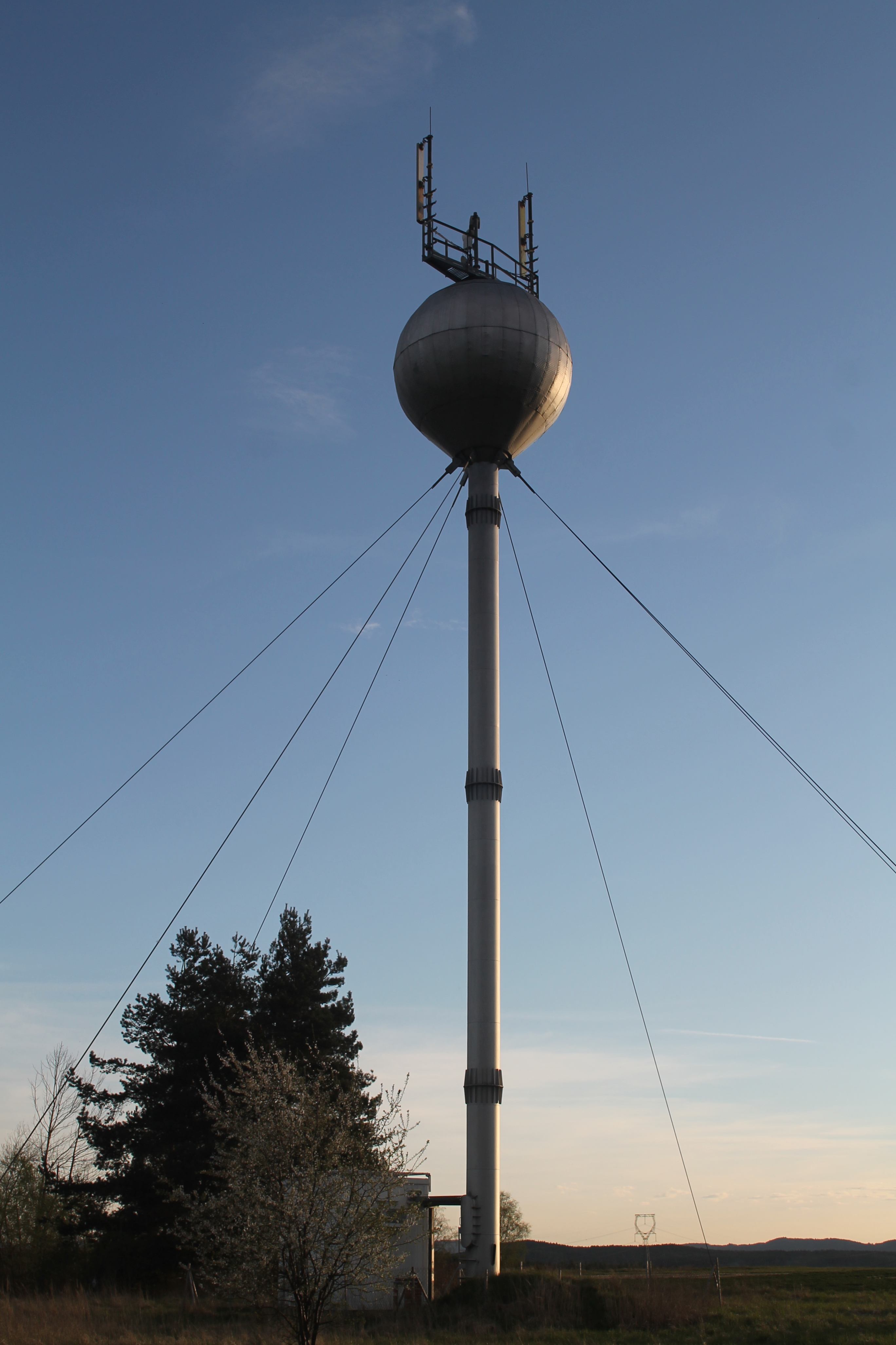 Boječnice Water Tower